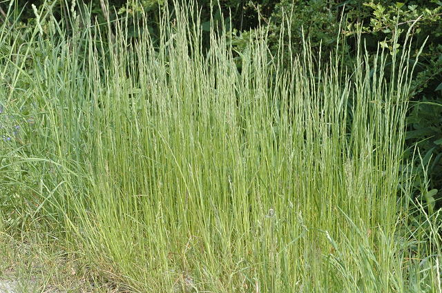 Picture taken in Commanster, Belgian High Ardennes . Species: Festuca tenuifolia